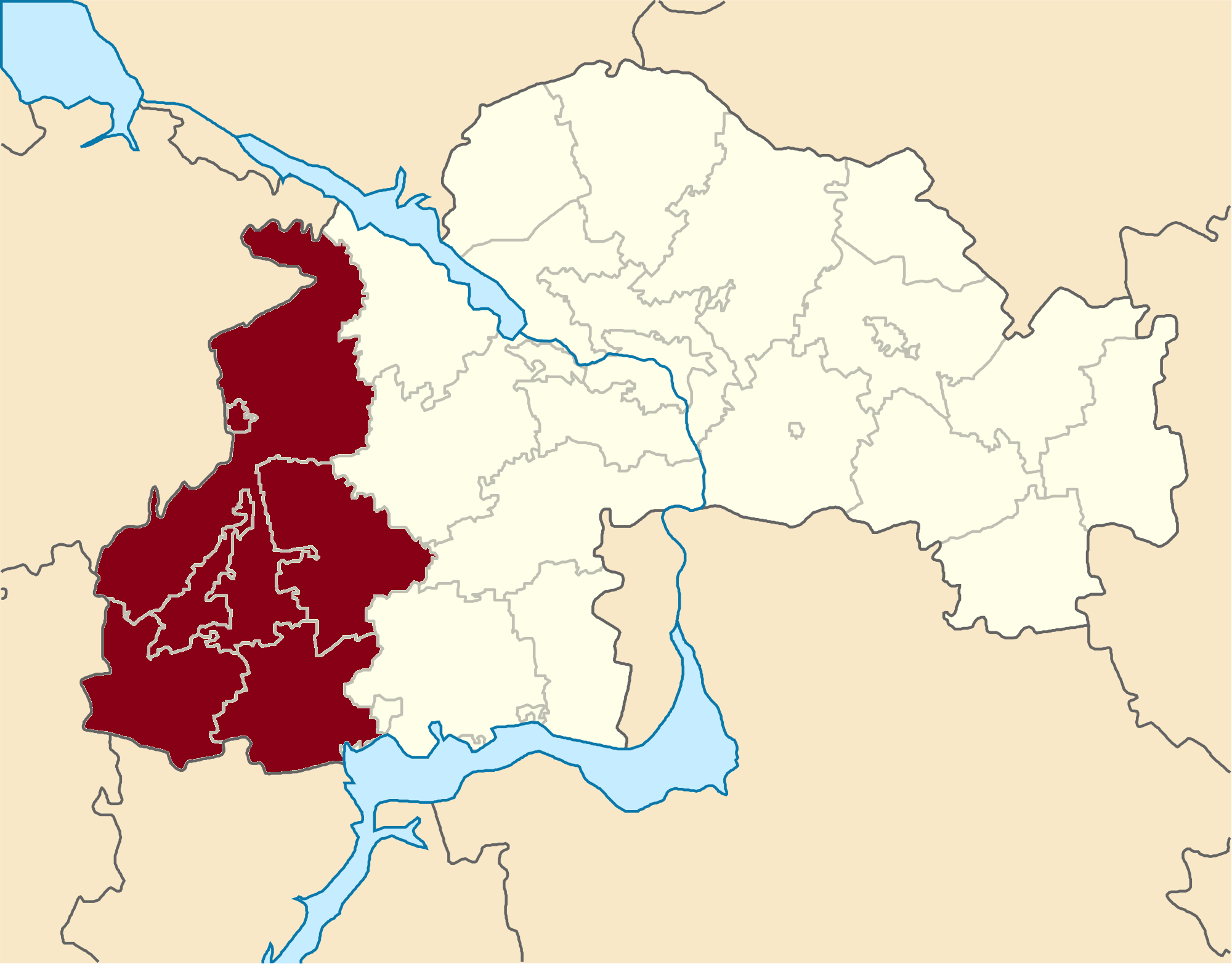 Kryvyi Rih Metropolitan Region